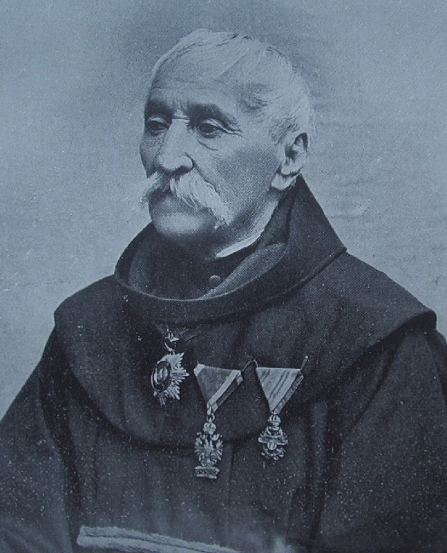 Grgo Martic, a Croatian Franciscan monk